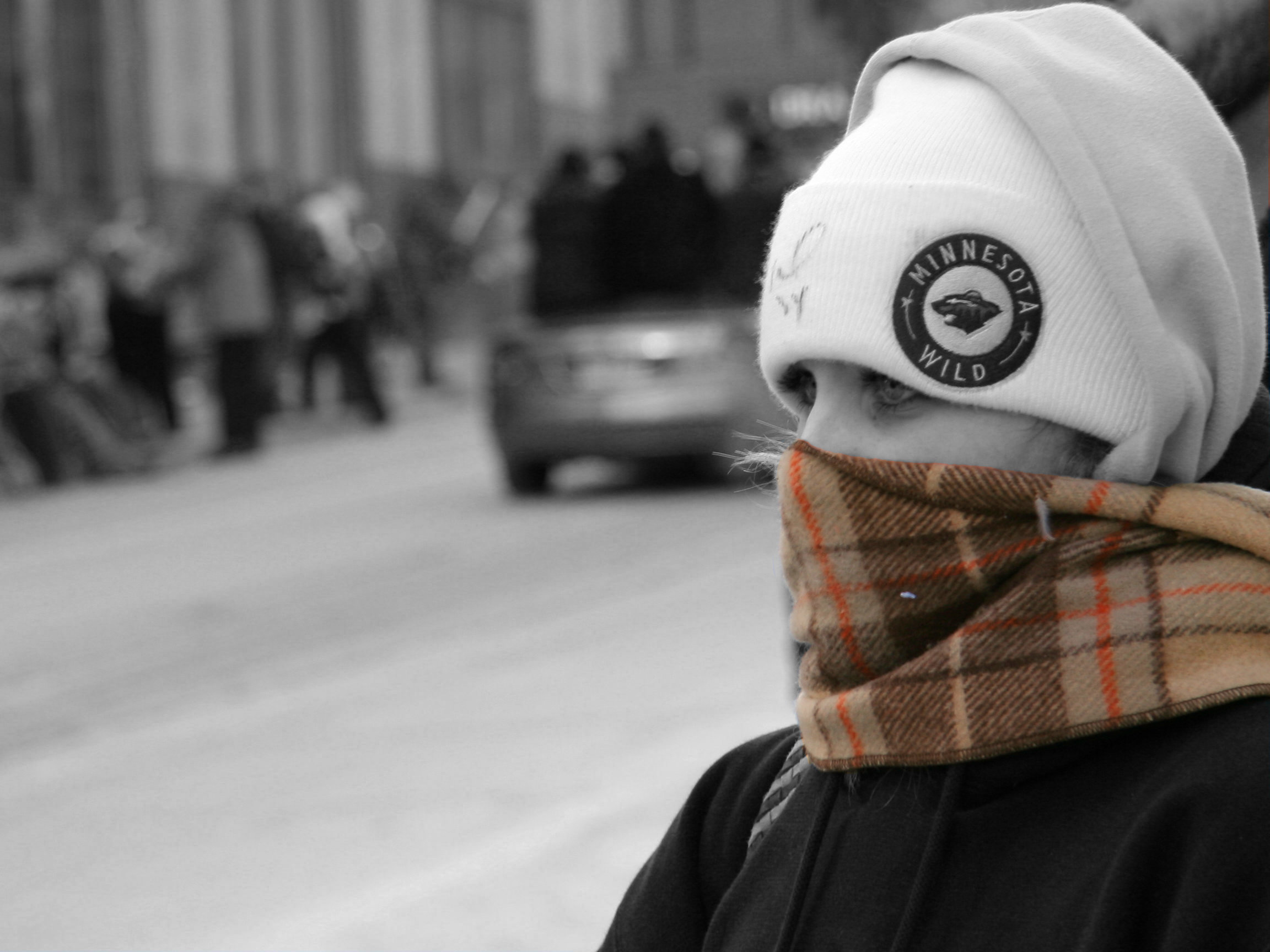 A woman wearing a scarf over her face. All colour has been removed from the image, except for the scarf.